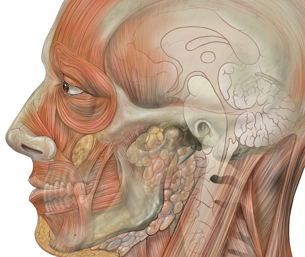 Head face antomy lateral view